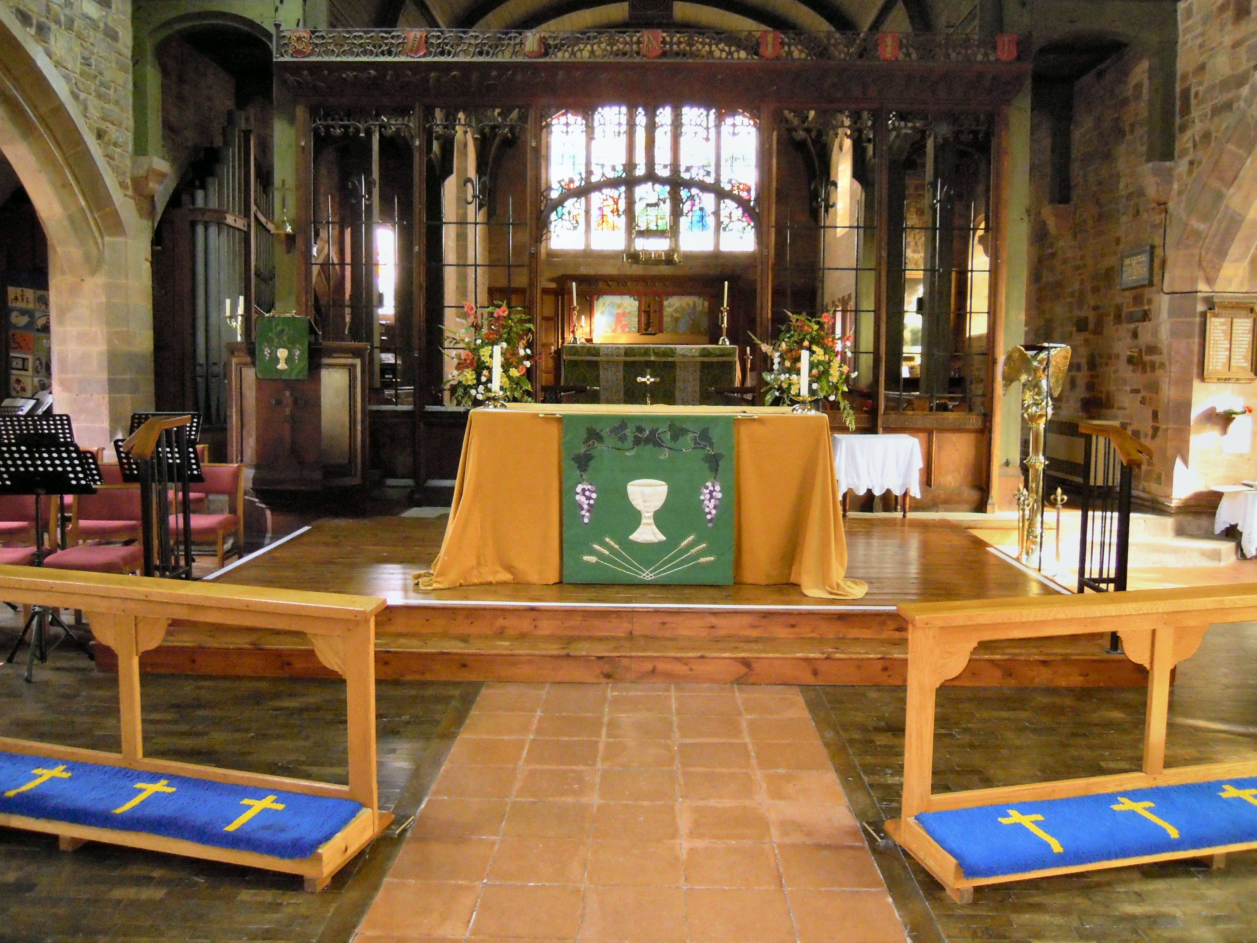 View of the nave towards the chancel at the Church of St Sabinus in Woolacombe in Devon